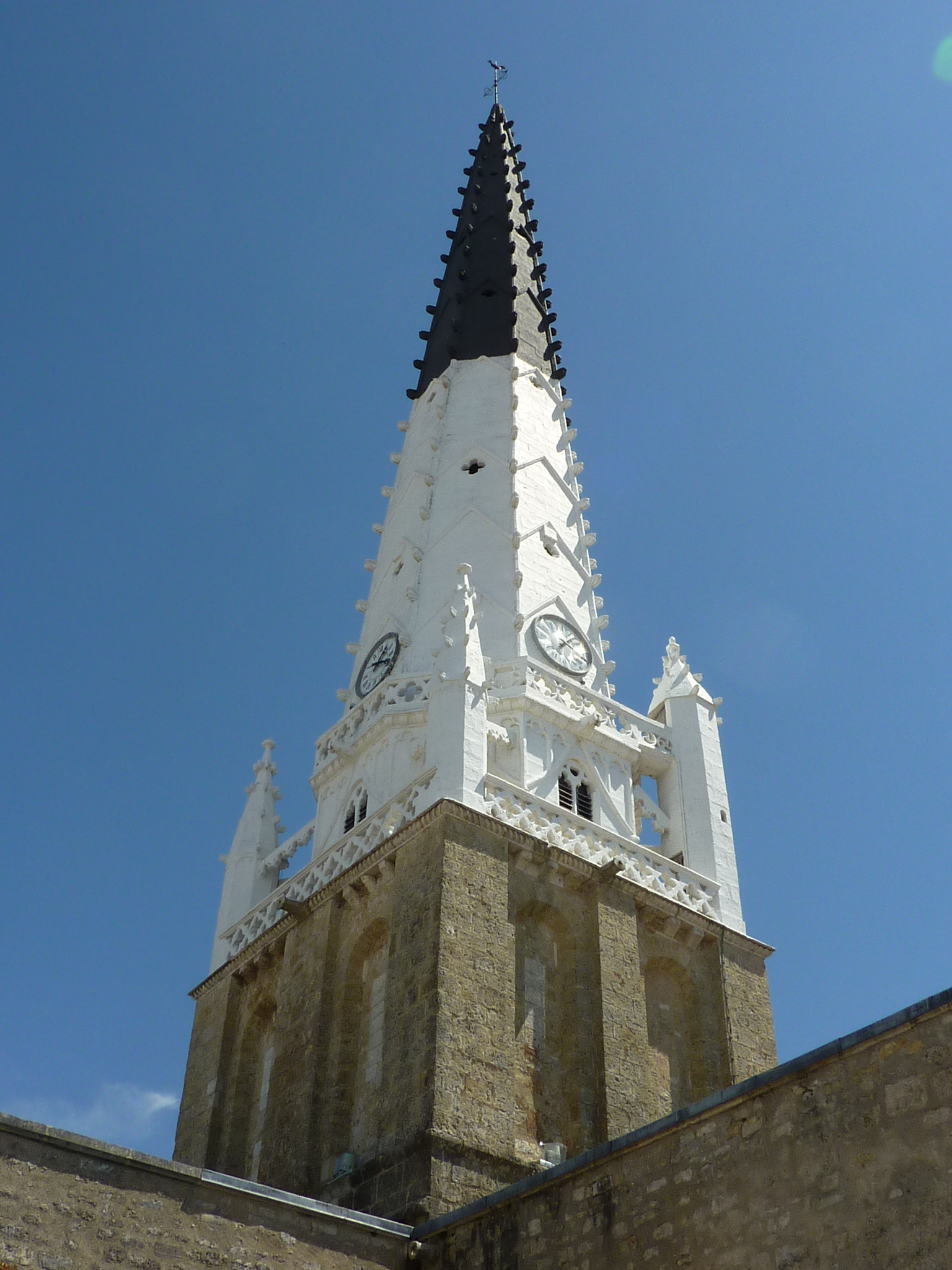 Exterior of Église Saint-Étienne d'Ars-en-Ré